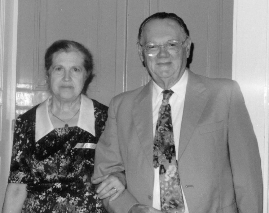 Mihály Bácskai drama teacher and his wife Erzsébet Molnár in 2000